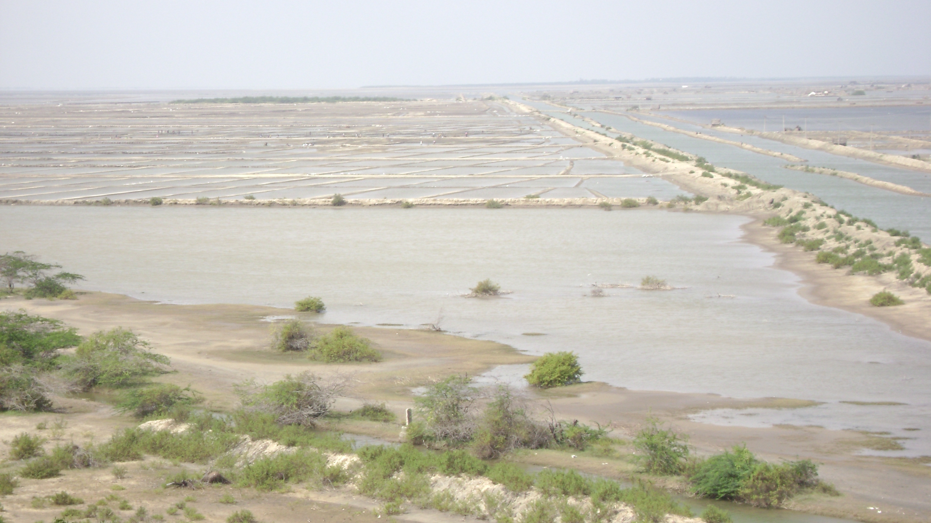 Point Calimere Wildlife and Bird Sanctuary, Salt Pans to the west